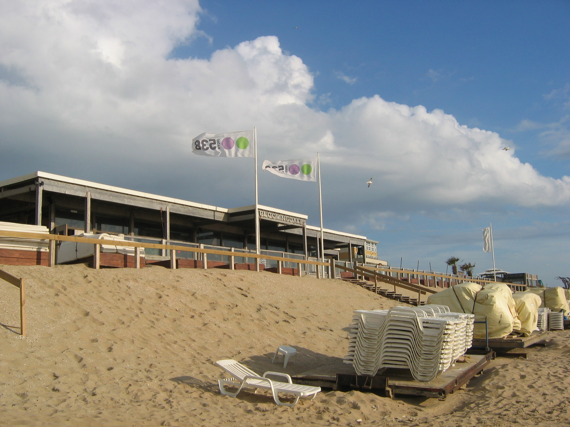 Beachclub Bloomingdale, entrance